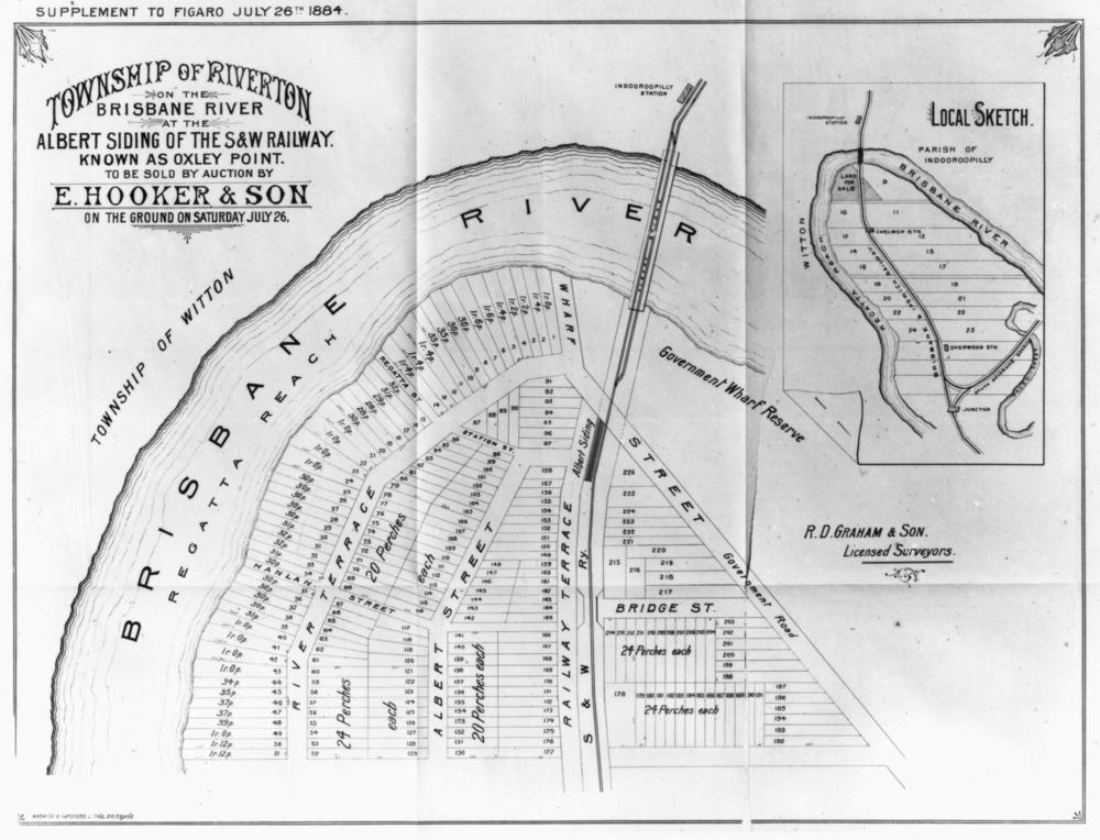 New estate map advertising a land auction at Riverton, Corinda, 1884 Map shows land available for sale in the township of Reverton, on the Brisbane River. To be sold at auction by E. Hooker and Son on the ground on Saturday 26 July, 1884. The map was drawn by R. D. Graham & Son, licensed surveyors. The land is situated on the Brisbane River at Regatta Reach, opposite the township of Witton. (A supplement to Figaro, 26 July 1884). The area of the auction is now part of the suburb of Chelmer.